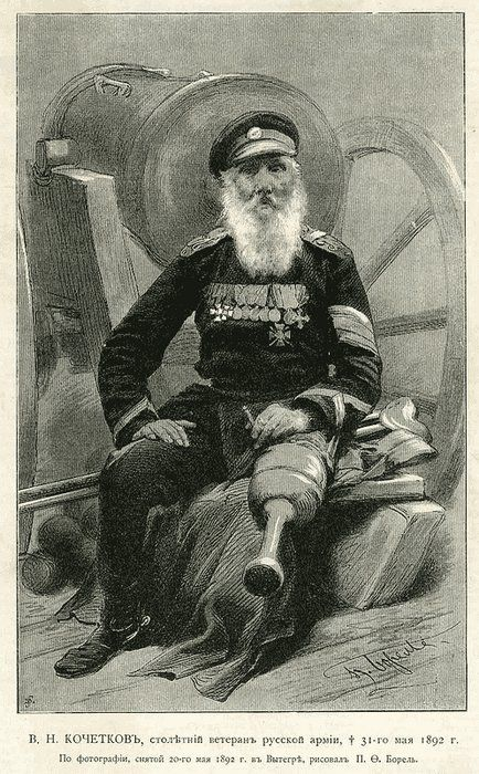 Veteran of the Imperial Russian army Vasily Kochetkov (107 y.o.)